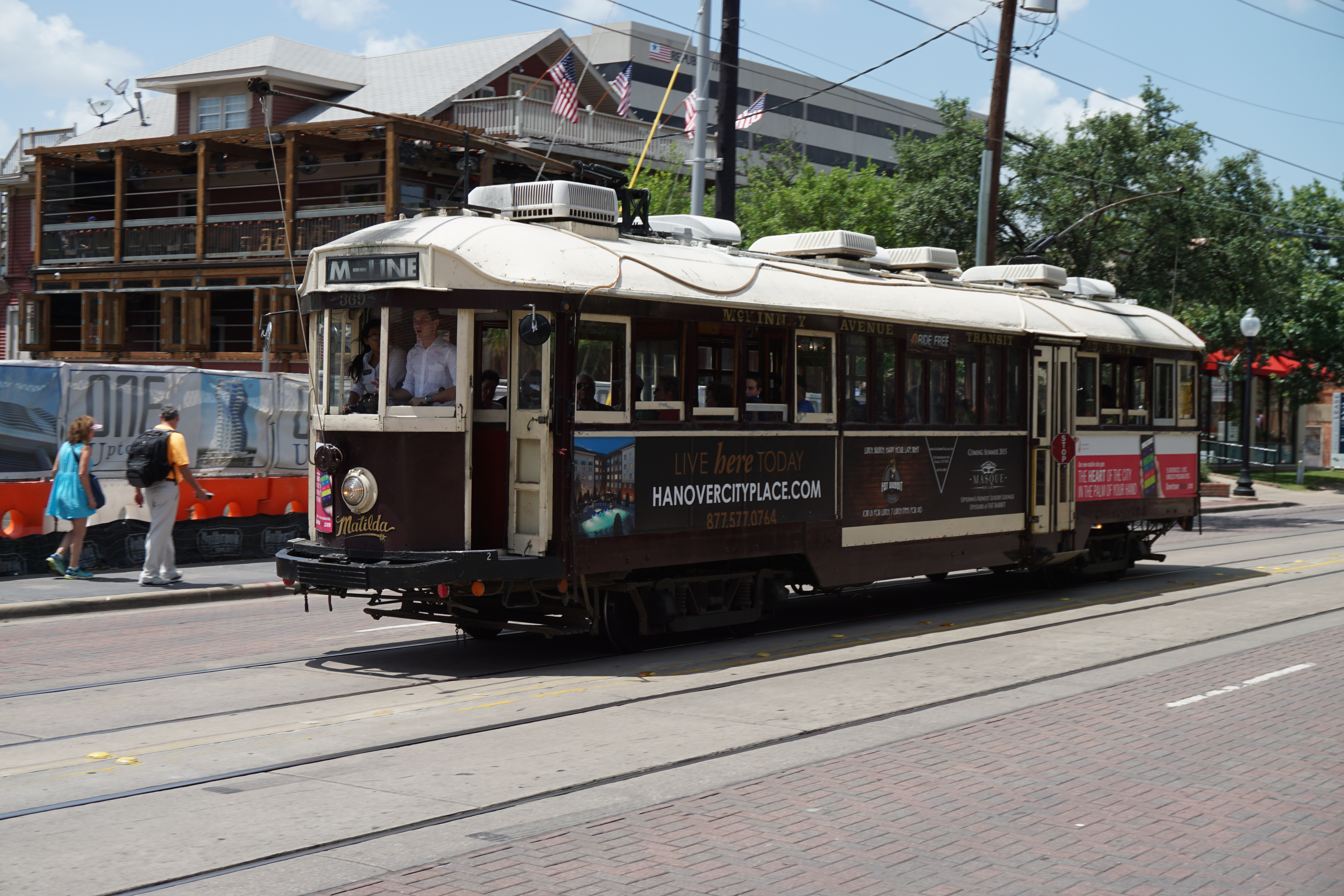 McKinney Avenue Transit Authority streetcar Matilda (No. 369) in Dallas, Texas (United States).